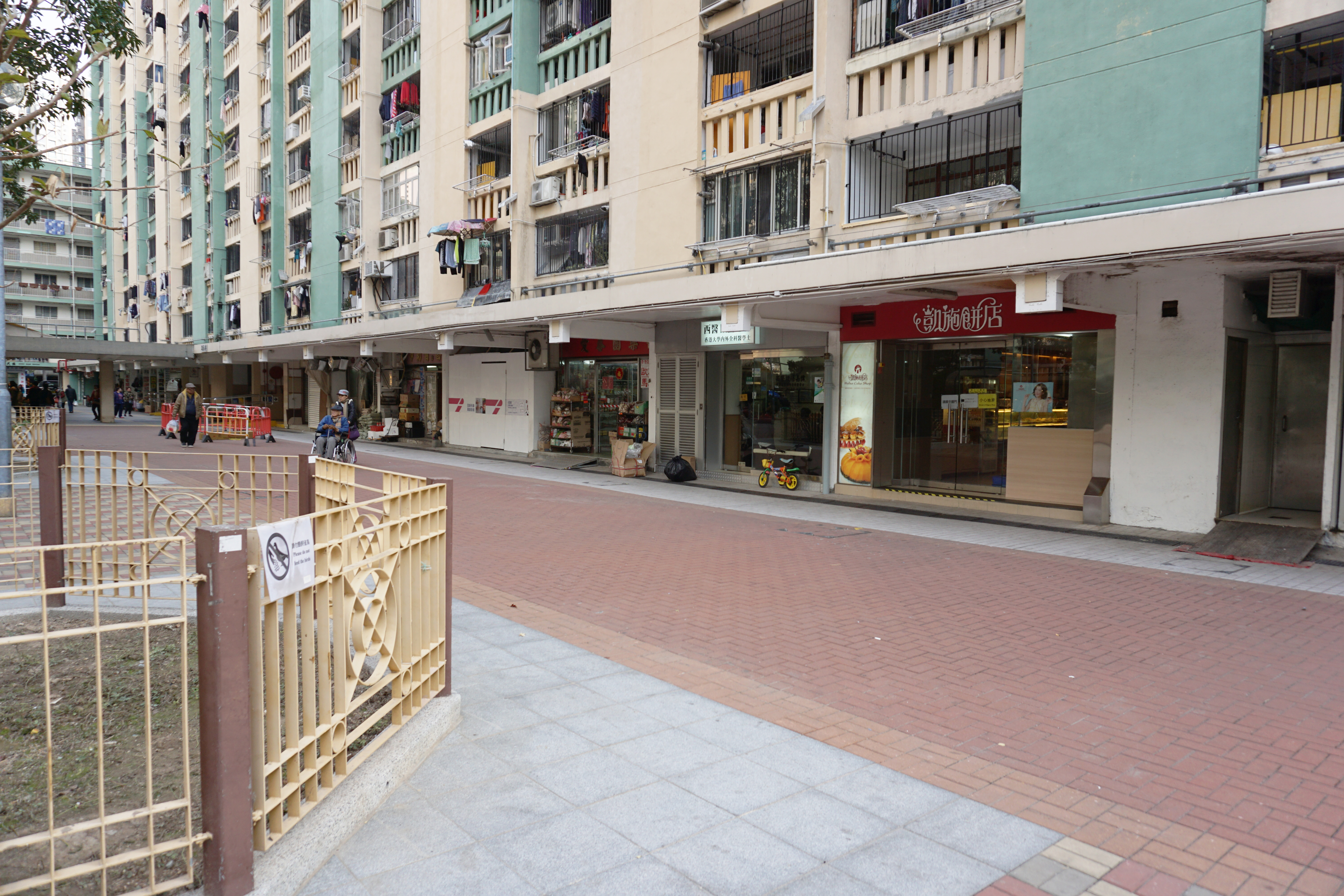 Chung Man House in Ho Man Tin, Hong Kong.